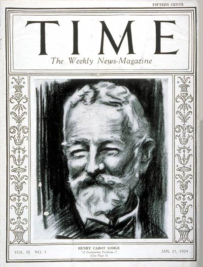 TIME Magazine Cover Featuring Henry Cabot Lodge (21 Jan 1924)